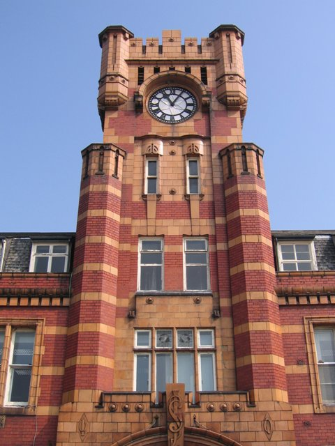 Tower above the entrance to John Summers' Building This tower is immediately above the entrance to the John Summers' house/office building, and is dated 1907. The building faces the River Dee and looks very impressive from across the river. The river bank is immediately behind the camera, so stepping back a bit is not an option. See also 404205.